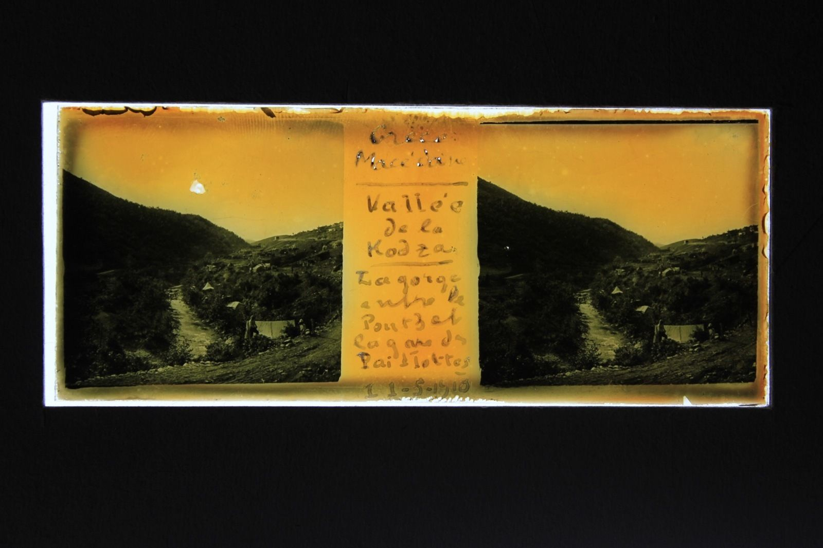 Koca Omerli in WWI